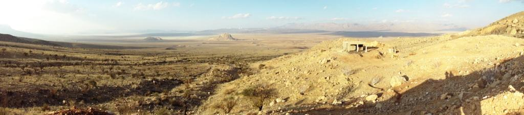 Estahban